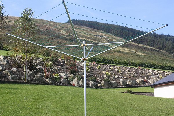 Breezecatchre TS4-140 rotary clothesline